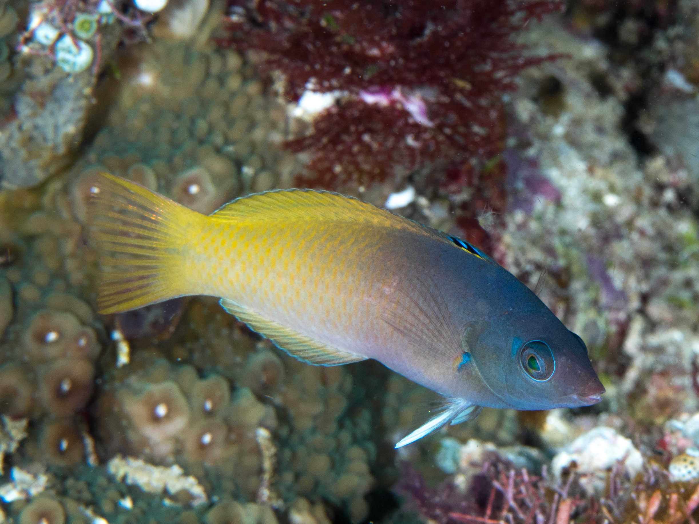 Morotai, Indonesia - Twotone wrasse (Halichoeres prosopeion)